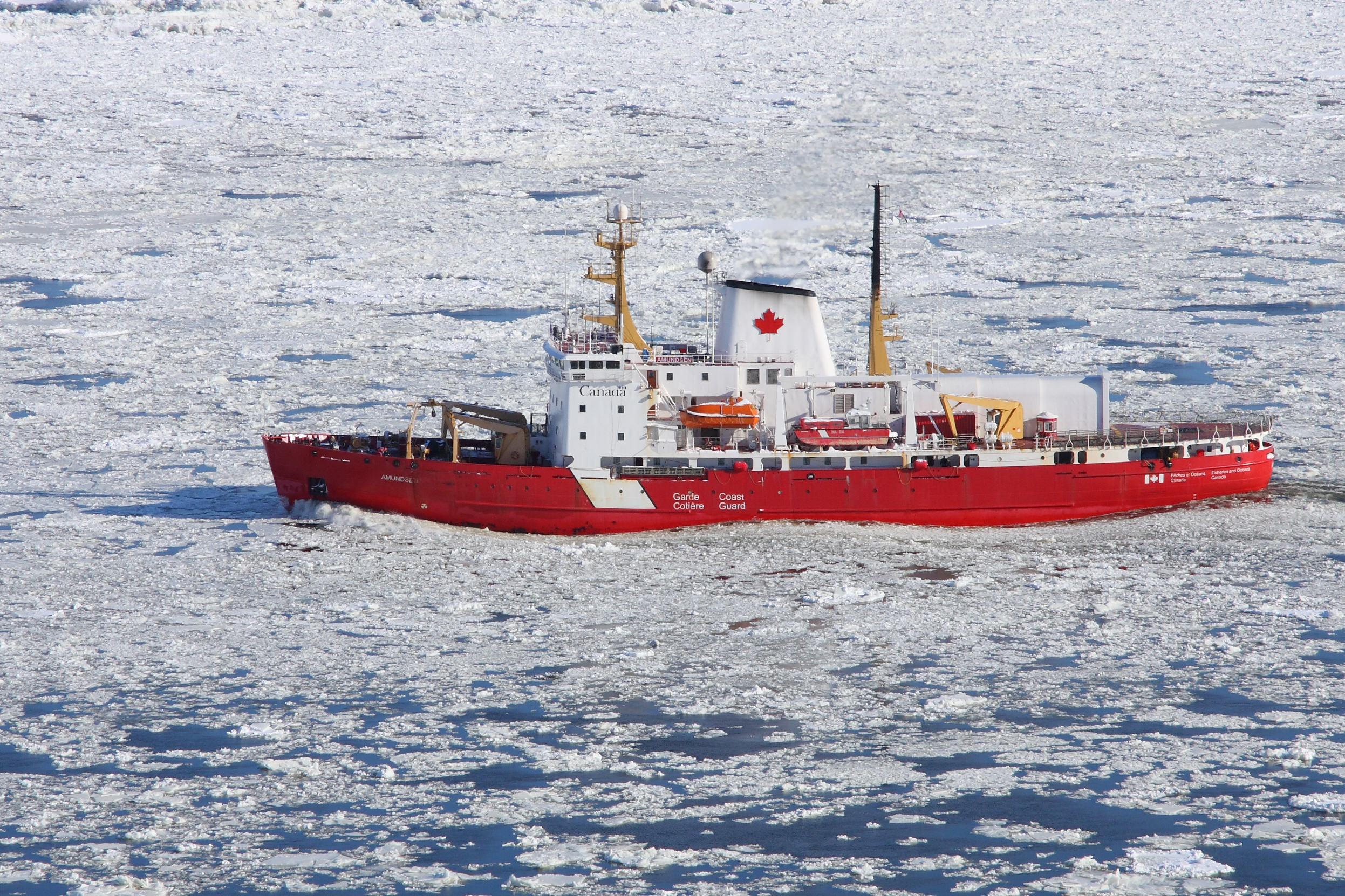 CCGS Amundsen on Saint Lawrence River between Quebec City and Lévis.